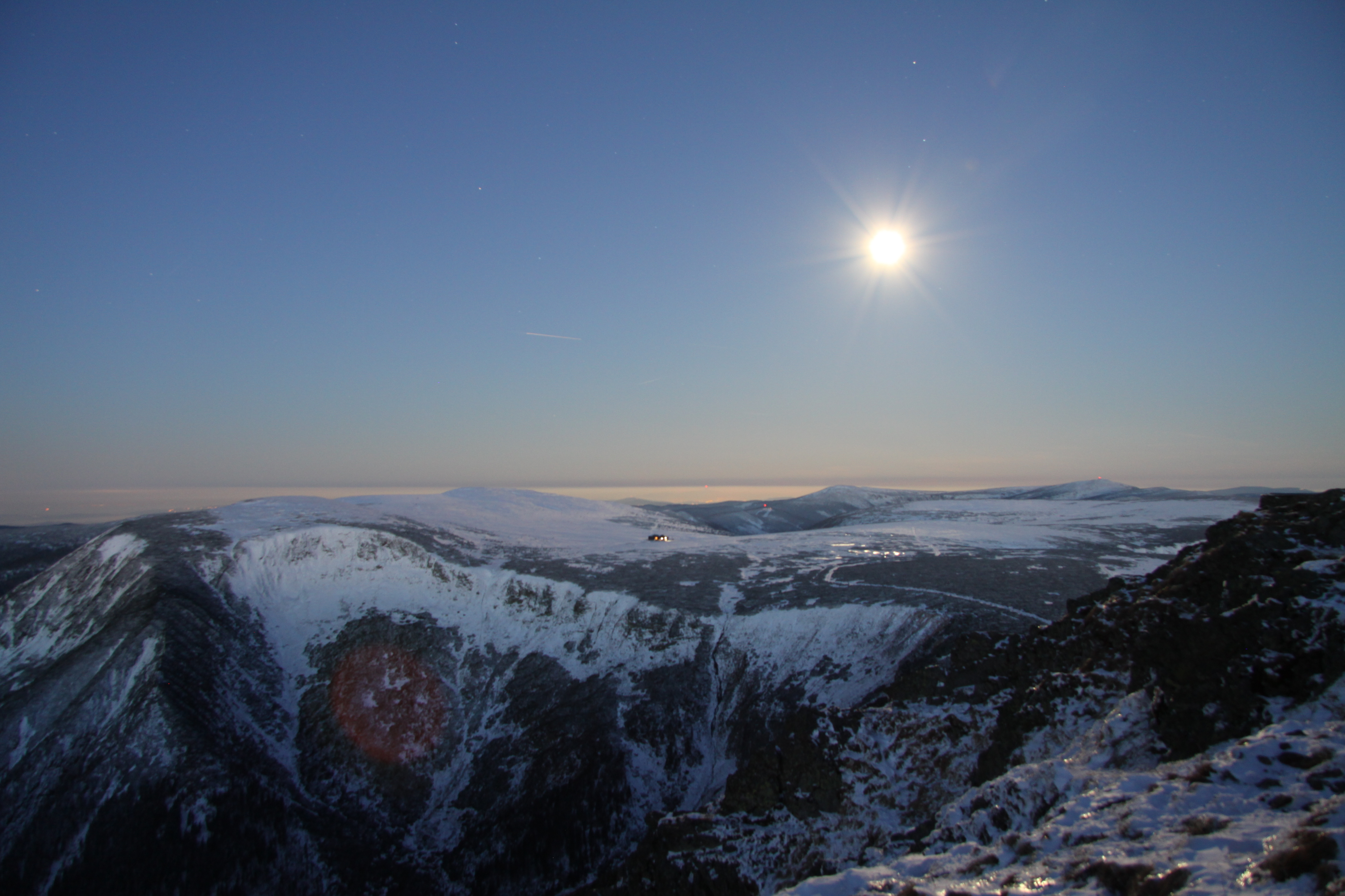 Studniční hora from Sněžka in the night, Czech Republc